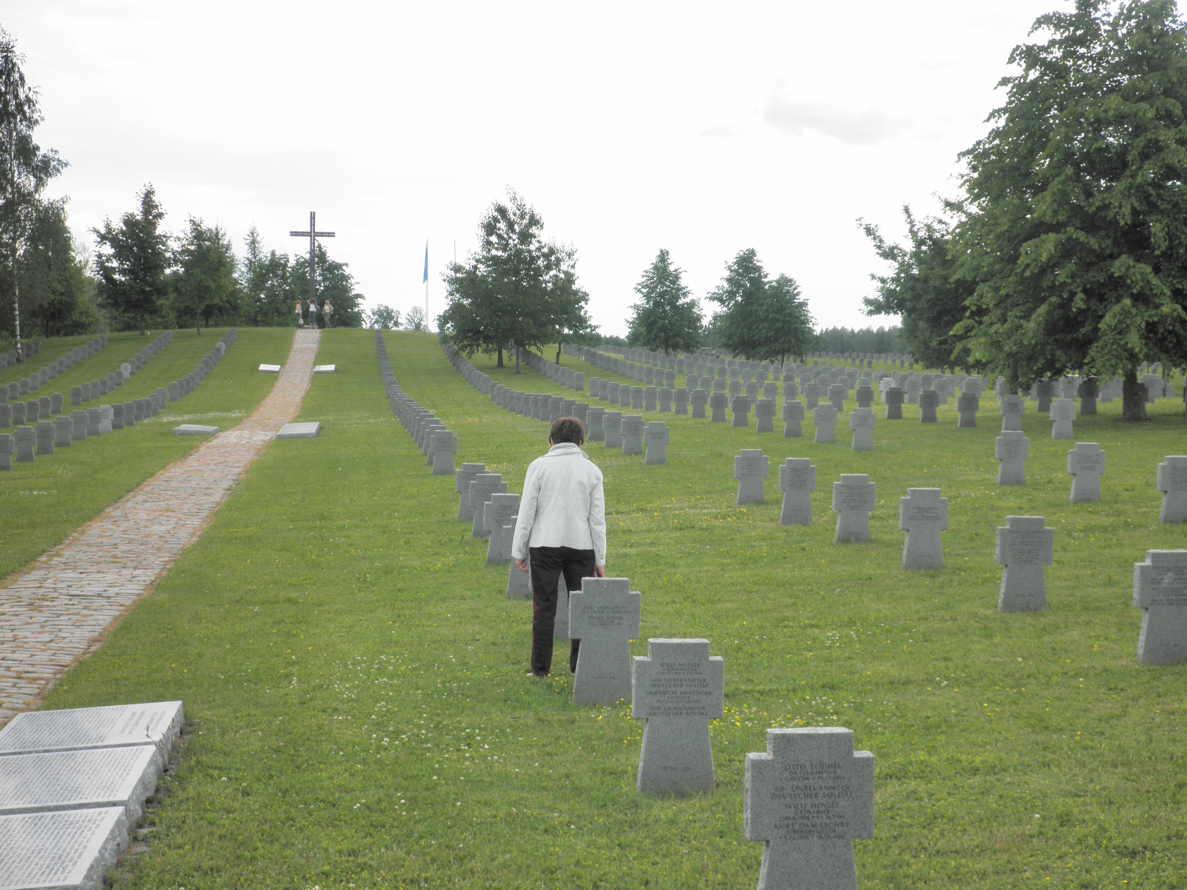 War Cemetery in Saldus in Latvia